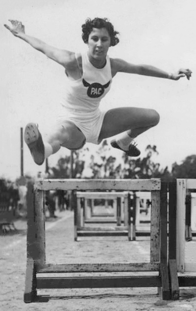 1932 Press Photo Simnie Schaller, Marion Fitting, Ann Vrana OBrien at track